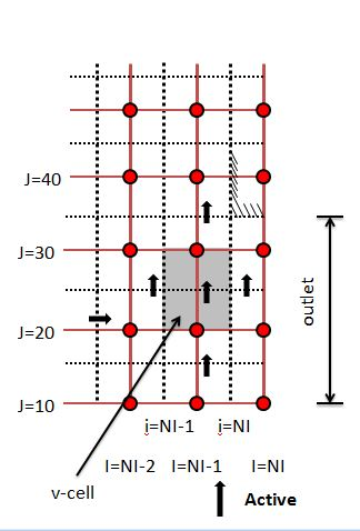 v-control volume at an exit boundary